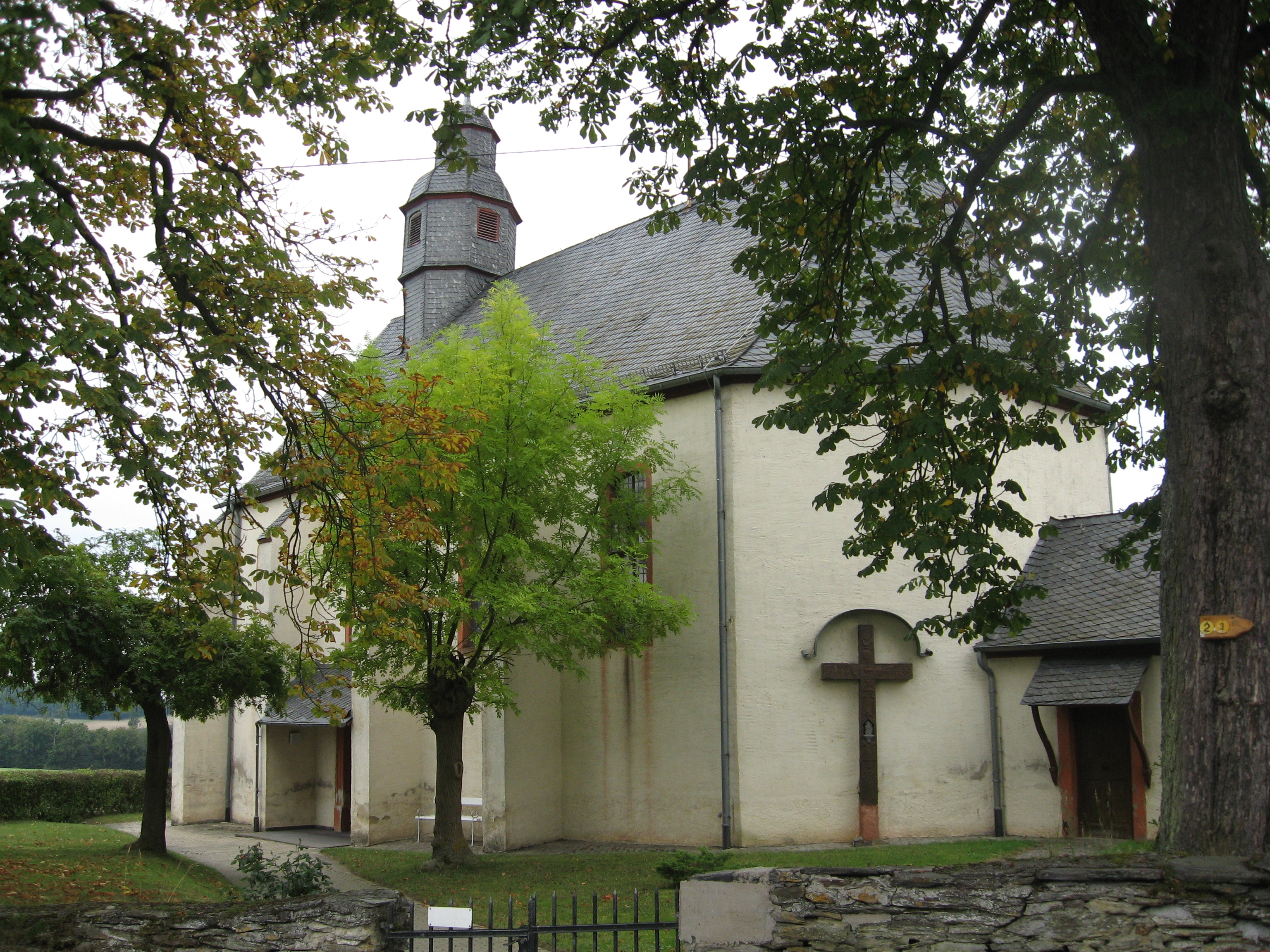 Church Mörz in the Hunsrück landscape, Germany.